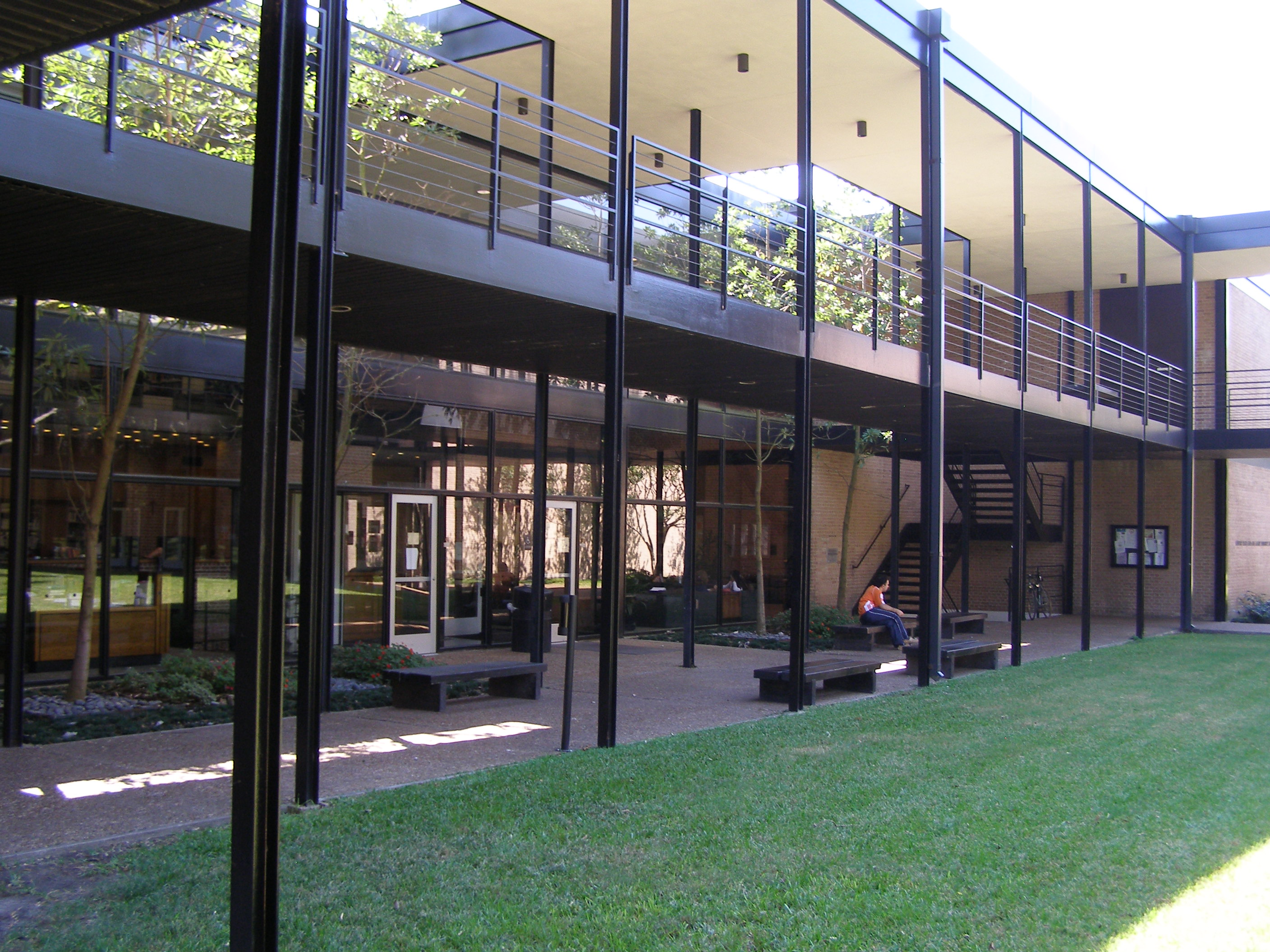 The entrance to the St. Thomas University library, at the Academic Mall